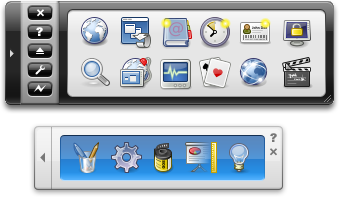 Screenshot of Appetizer showing the Tango icon set (version 0.8.1)